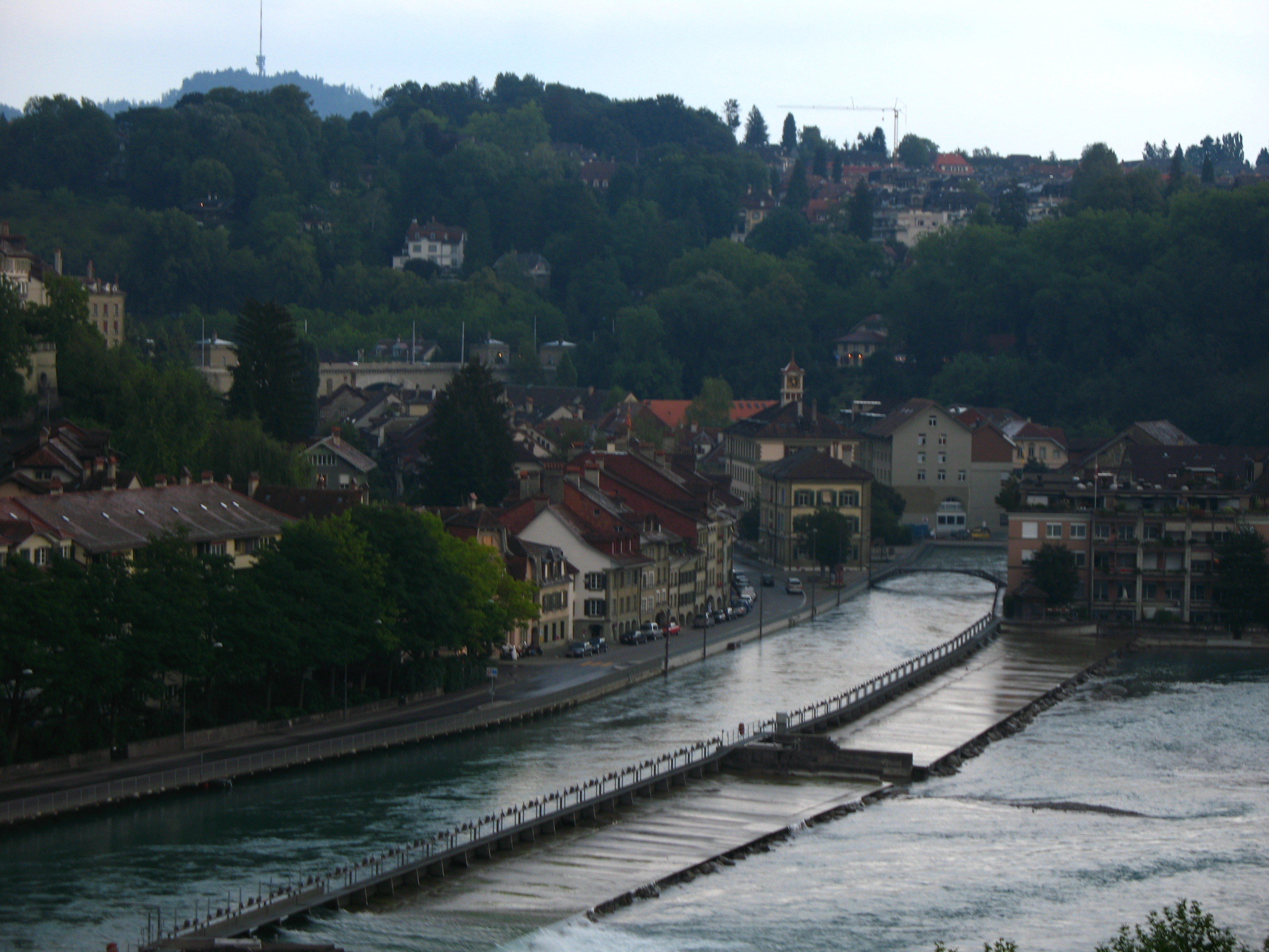 View from Church Span Bridge, Berne, Switzerland - Google Maps - Google Earth